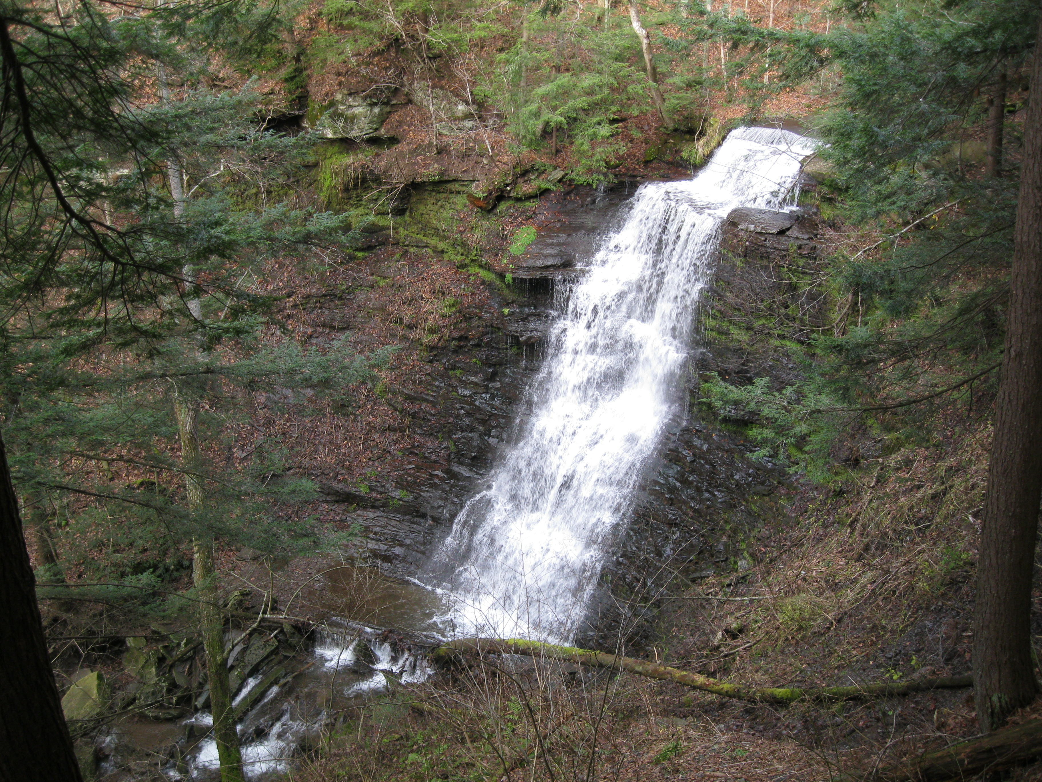 First waterfall on Little Four Mile Run going downstream, as seen from the Turkey Path in Leonard Harrison State Park in Shippen Township, Tioga County, Pennsylvania, United States